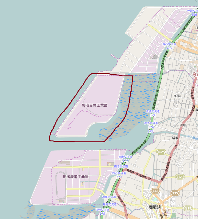 Changhua Coastal Industrial Park-Lunwei